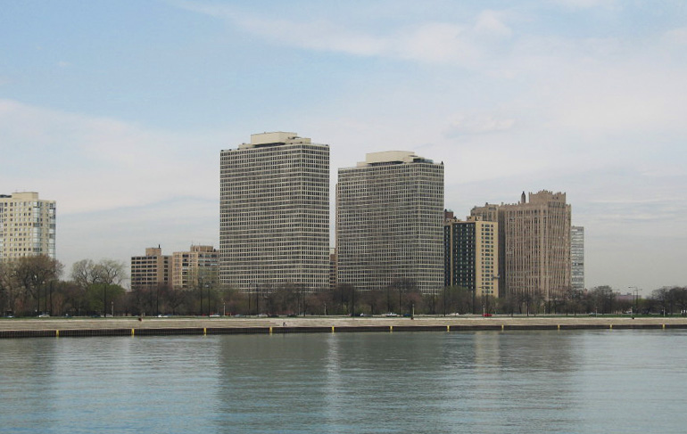 Monika Bonckute is the author of this picture.